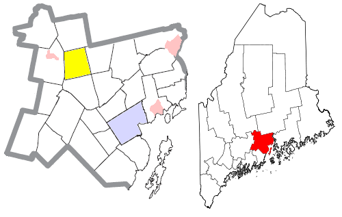 Map of the divisions of Waldo County, Maine, United States, with the town of Thorndike highlighted in yellow. The city of Belfast is light blue; other towns are white; and pink areas are census-designated places within towns.